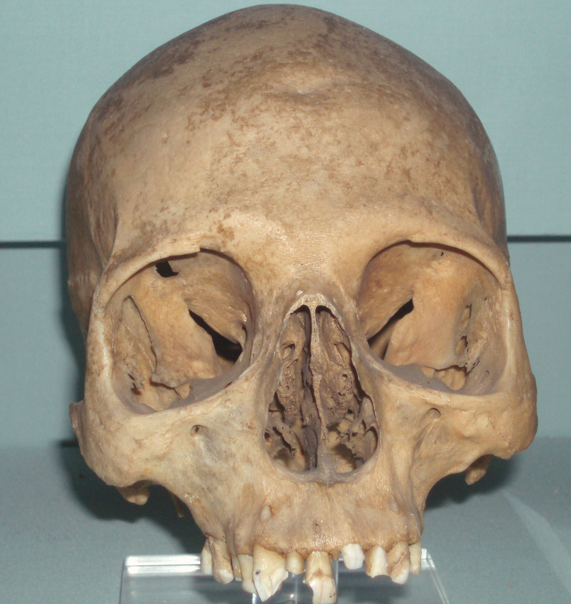 Skull of Khety 1950bc Asyut